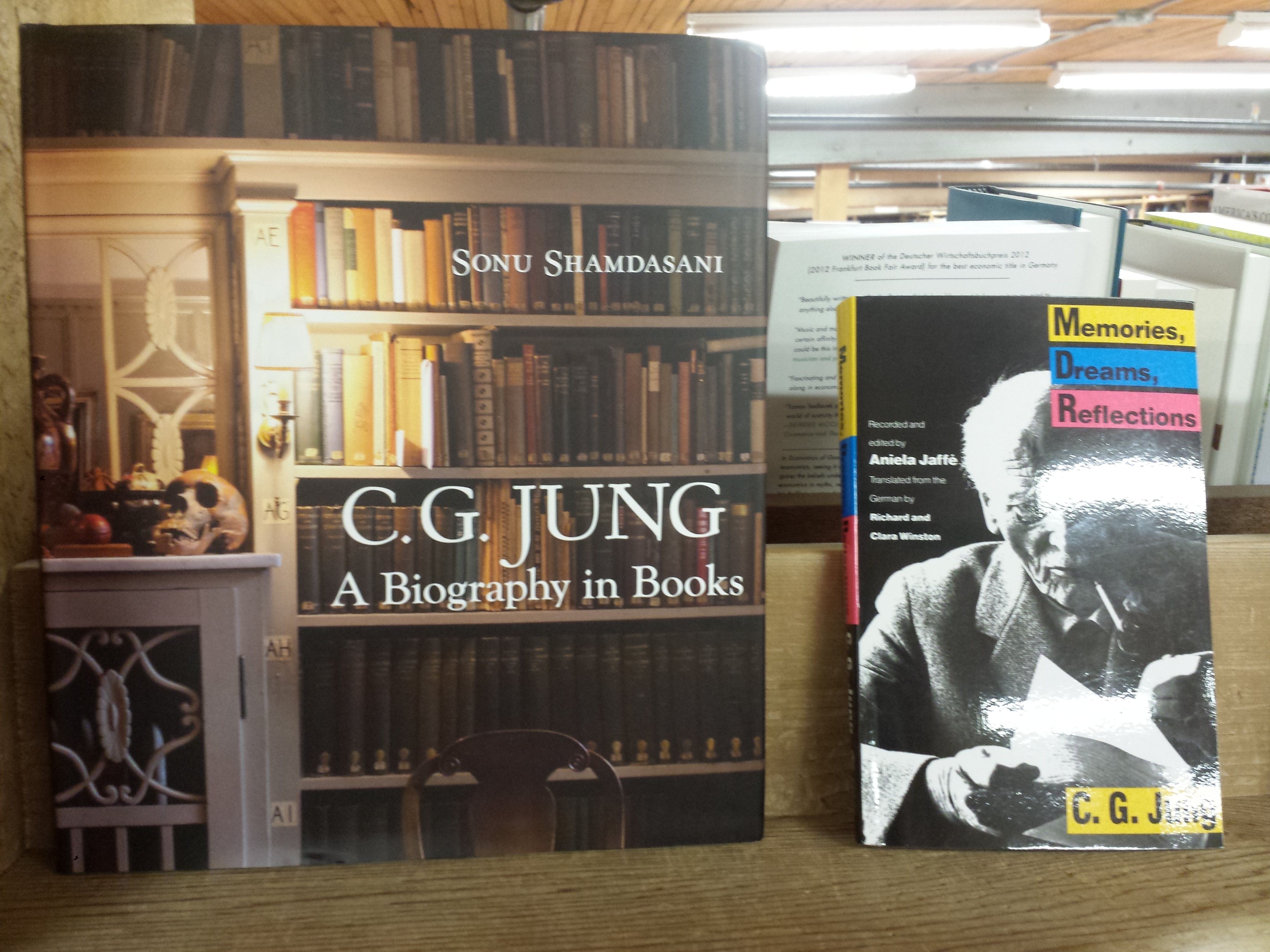 The story of Jung as deduced from his library. Elliott Bay Book Capitol Hill, Seattle IMG_20150306_154024